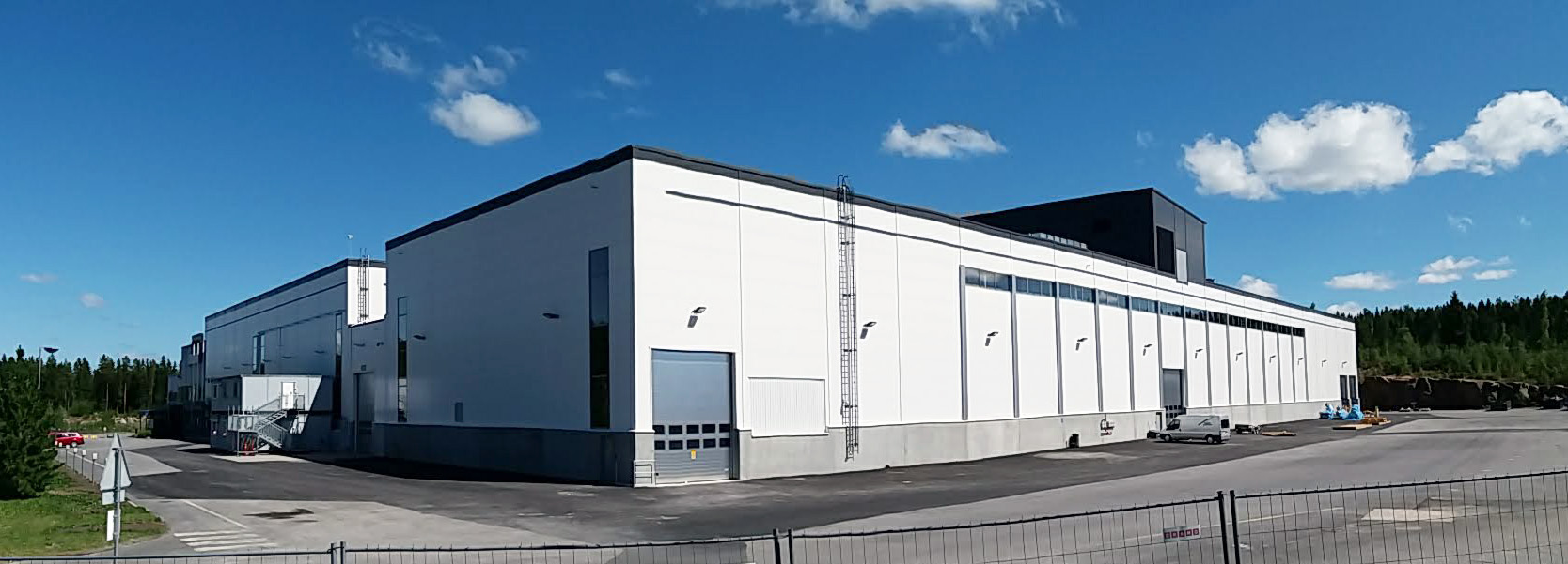 Moventas building in Jyväskylä, Finland.